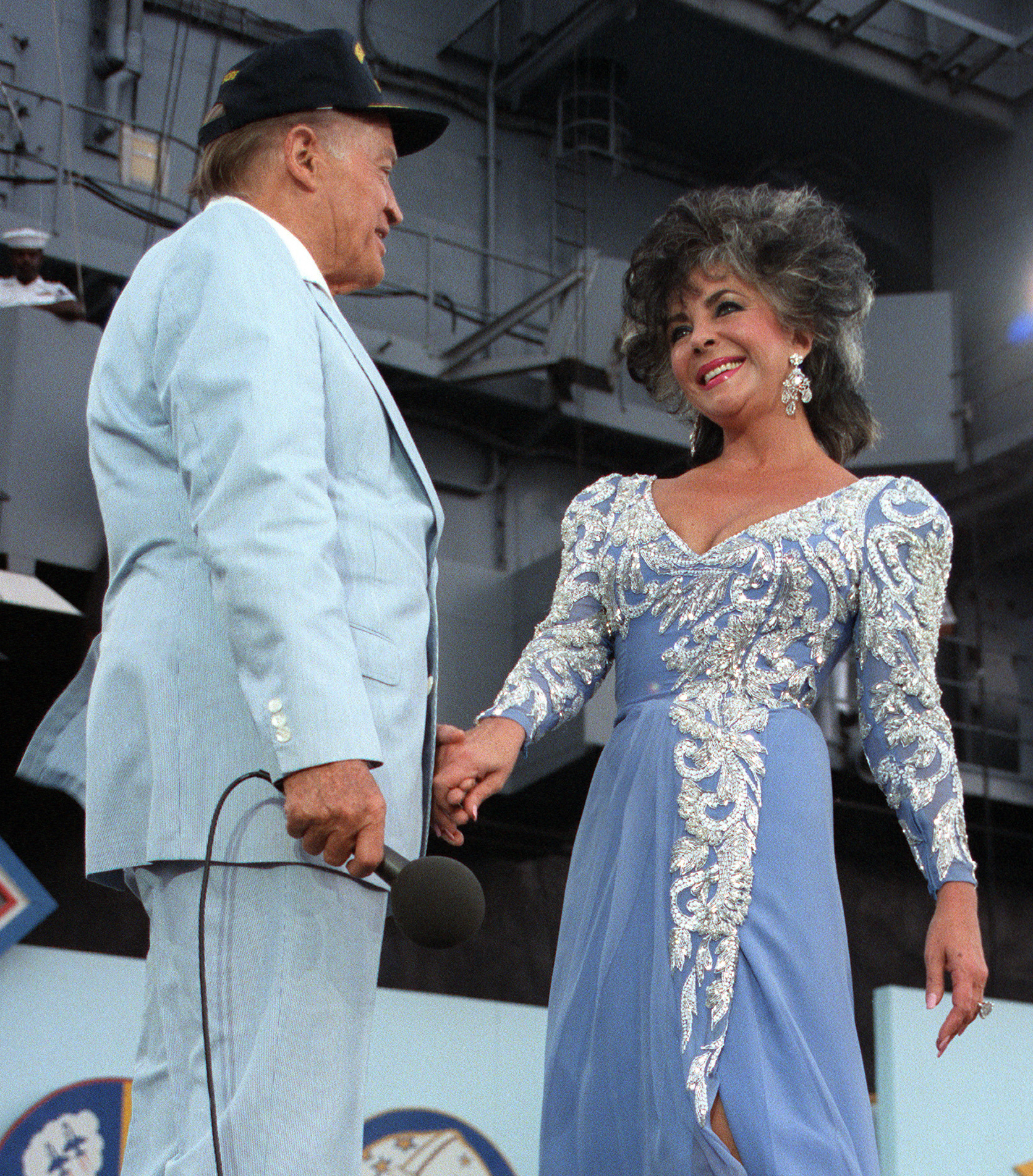 Bob Hope and Elizabeth Taylor perform in a United Service Organization (USO) show aboard the training aircraft carrier USS Lexington (AVT 16) stationed at Naval Air Station, Pensacola during the celebration of the 75th anniversary of naval aviation.